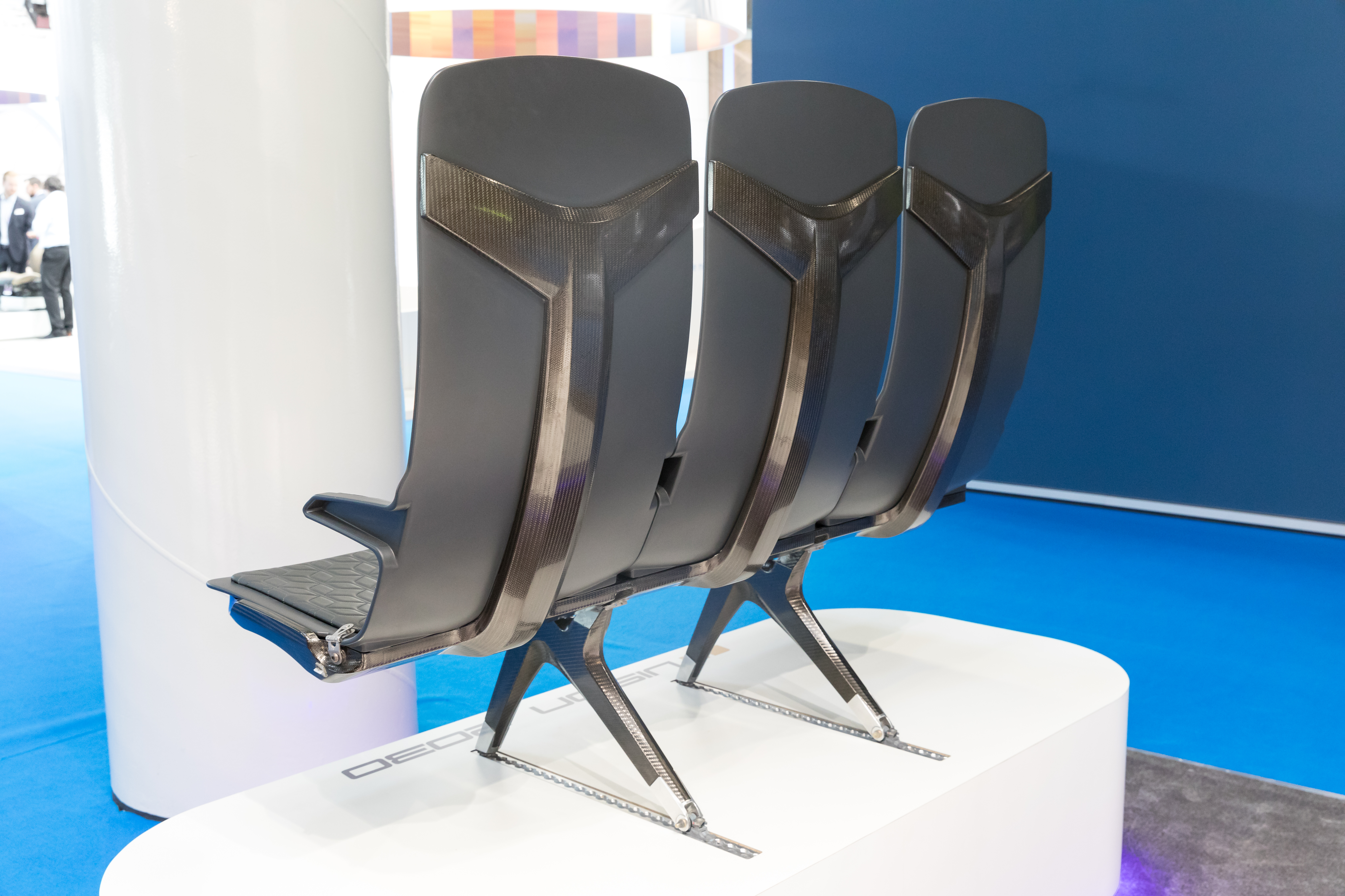 Passenger Experience Week Hamburg 2018